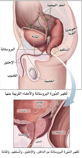 Prostate and bladder, sagittal section.